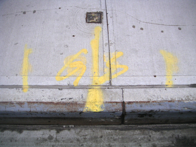 I made it, it's yours. Aerosol paint survey marking indicating below street gas service line. New York City, 2007.